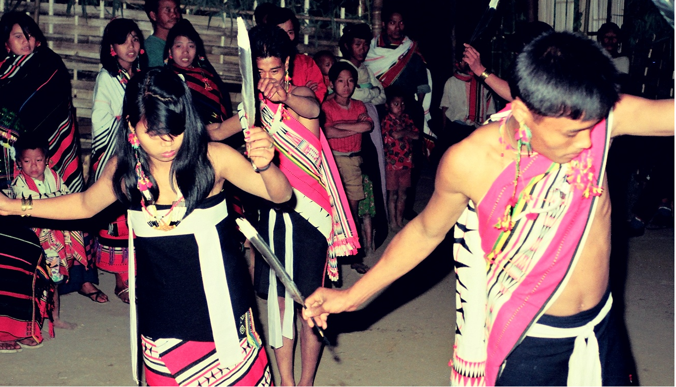 Zeme Naga Dance